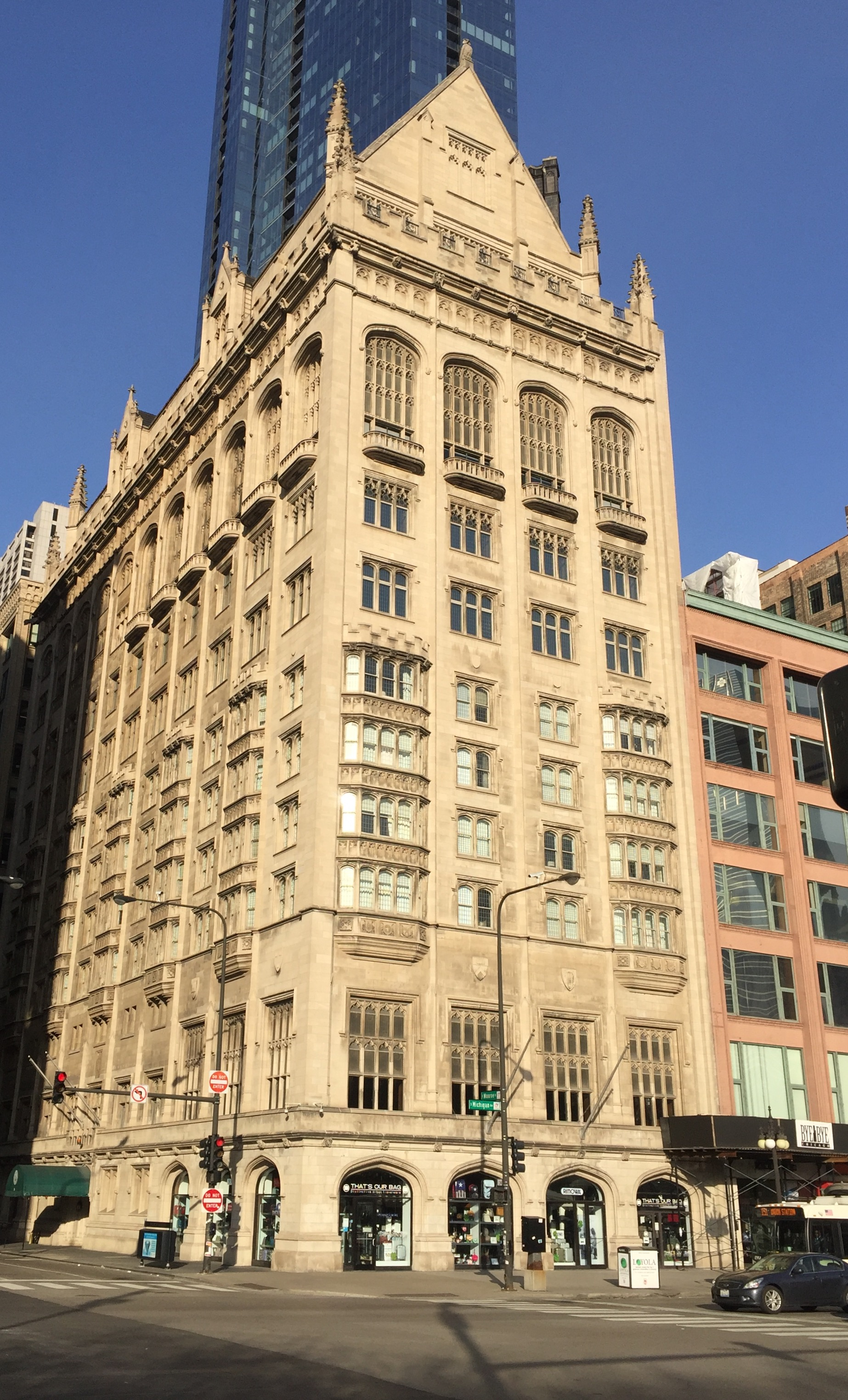 University Club, 76 East Monroe Street, Chicago, Illinois